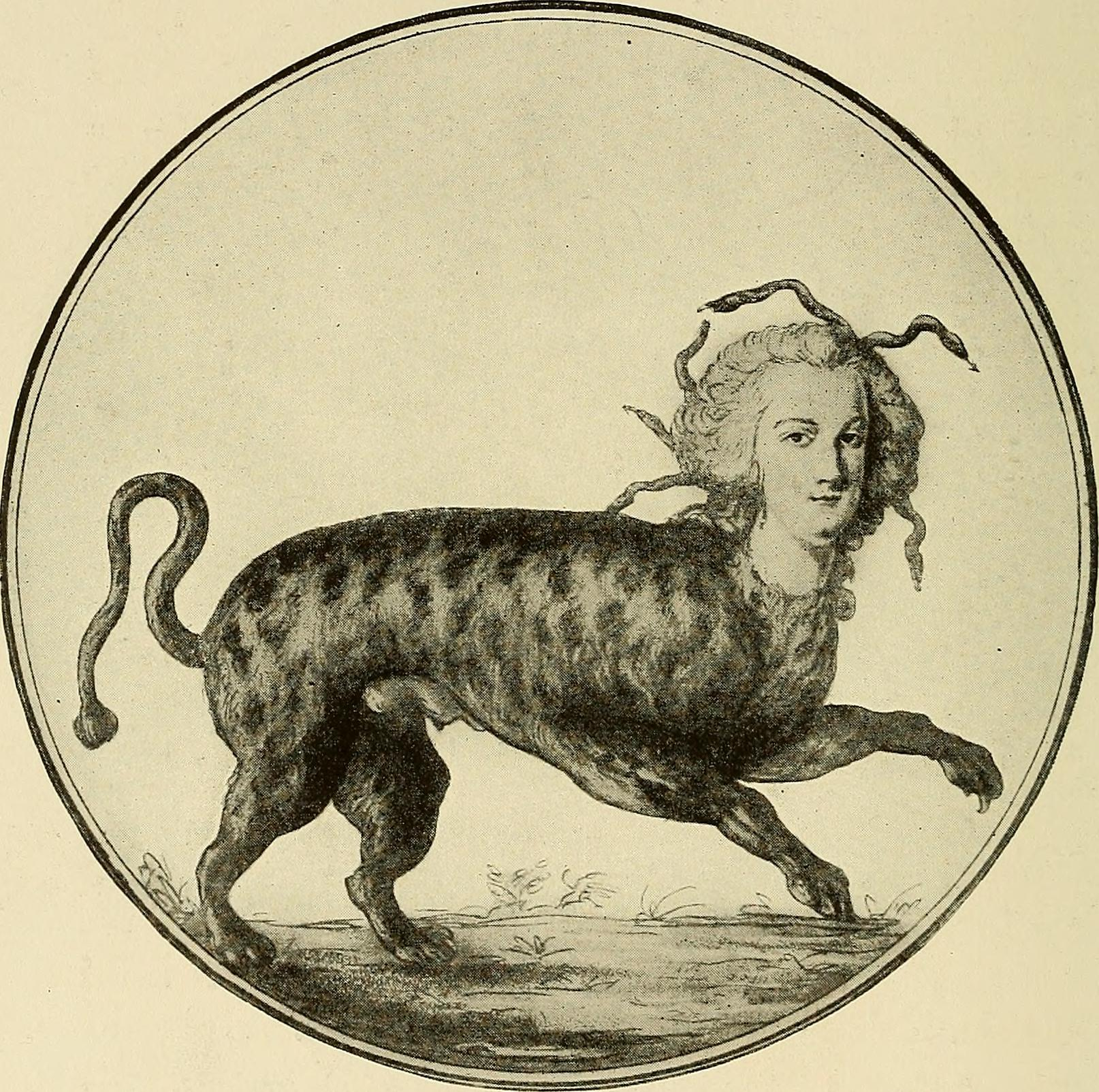 Title: Symbol and satire in the French Revolution Year: 1912 (1910s) Authors: Henderson, Ernest F. (Ernest Flagg), 1861-1928 Subjects: Caricatures and cartoons Publisher: New York, London, G.P. Putnam's Sons Text Appearing Before Image: Plate 76. A caricature of Louis XVI as a homed pig. Rights of Man and the Constitution of France. It must be said in extenuation of such attacksthat Marie Antoinette actually was engaged in aplot to remove Louis XVI from Paris at the mom-ent when the open letter in the Revolutions de Plate 75, p. 158. i6o The French Revolution Paris appeared. Count Louis de Bouille who wasconcerned in the flight to Varennes wrote later inconnection with that affair: It was in the month Text Appearing After Image: Plate 77. A caricature of Marie Antoinette as an Austrian pantheress. of October, 1790, when the King and Queen adoptedthe project of delivering themselves from slavery.Indeed Marie Antoinette played more than apassive part. It was at her desire, writes CountBouille, that Count Fersen, who had access to the